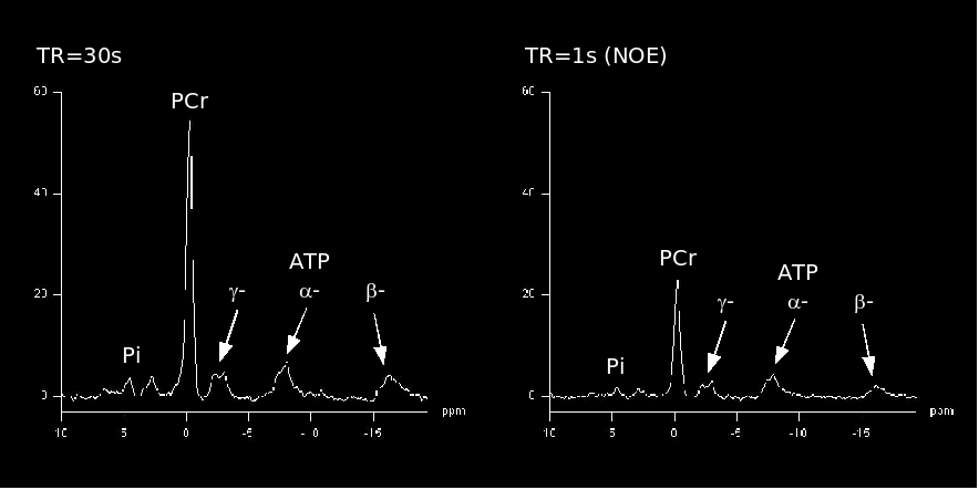 The two phosphorus-31 magnetic resonance (MR) spectra are derived from the calf muscle of the same individuum and just acquired with different repetition times (TR). The MR spectra acquired with a TR of 1s was enhanced by the Nucleus Overhauser effect (NOE)